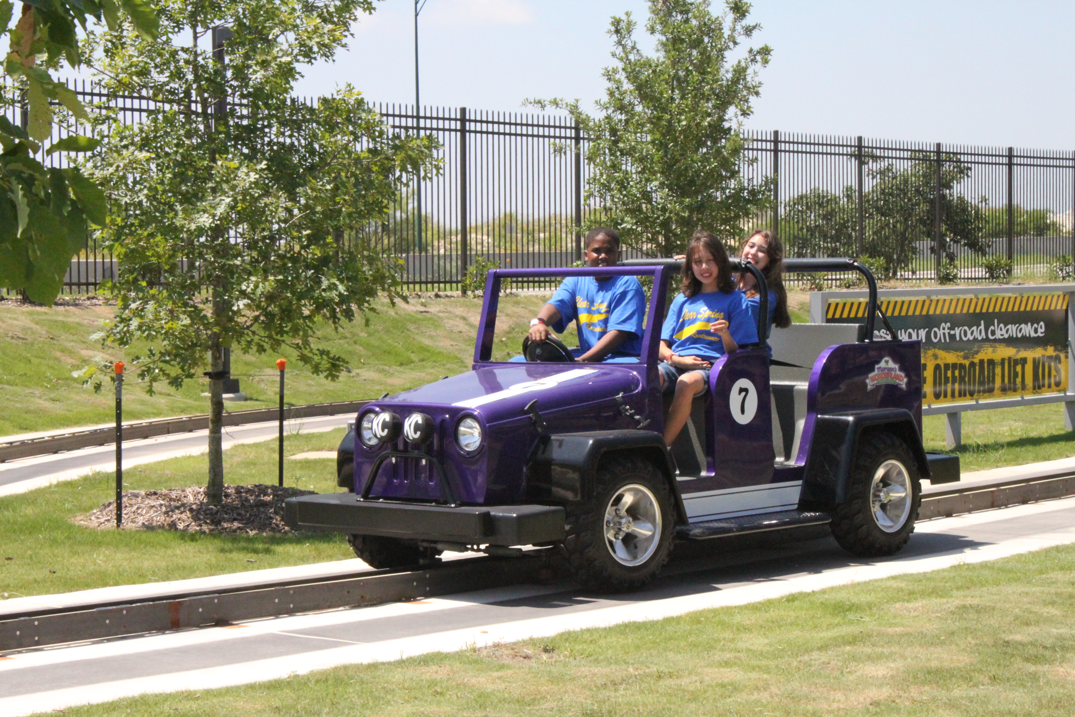 Off Road Adventure